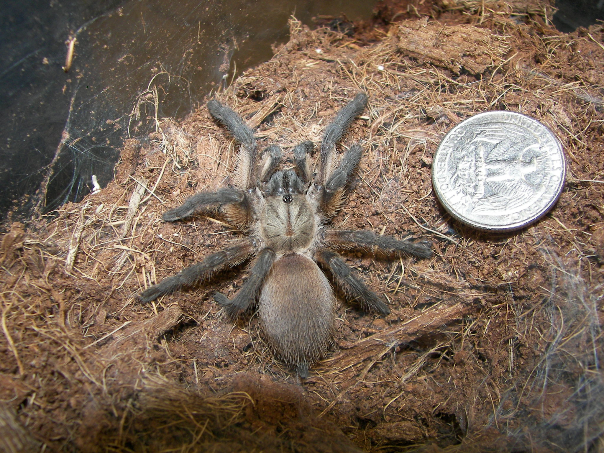 Monocentropus balfouri